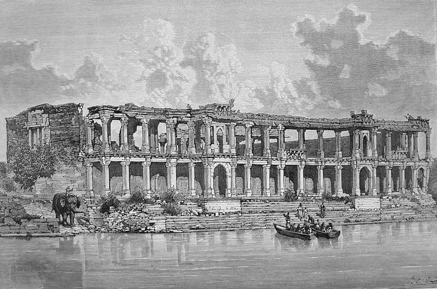 "The gallery that opens into the Tombs of the Queens" (1400's) at Sarkhej, Ahmedabad, from 'India and its Native Princes' by Louis Rousselet, 1878